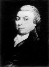 Samuel Sewall, US Representative from Massachusetts